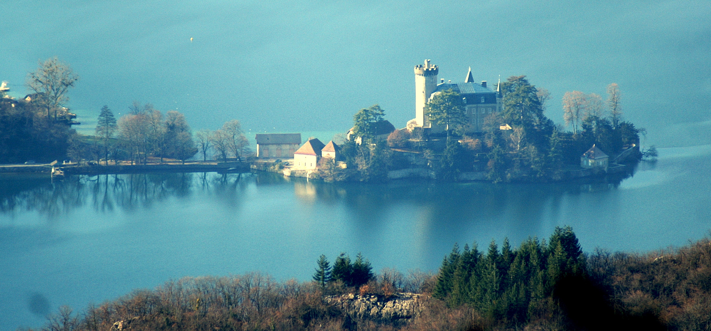 Duingt's peninsula and Ruphy Castle (Haute-Savoie, France).